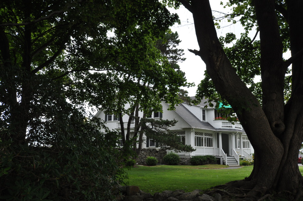 James Montgomery Flagg House, Fletchers Neck, Biddeford, Maine.